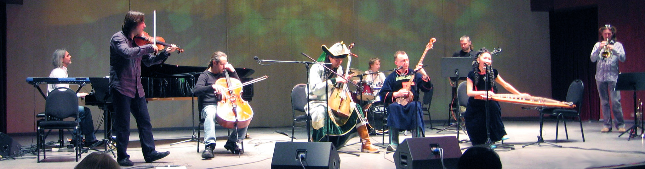 Alexei Aigui and his Ensemble 4'33' perform pieces from Detective Putilin TV series (Prince of the Wind part) with traditional Buryat-Mongolian group Namgar in the Moscow House of Music on Nov 13, 2008.